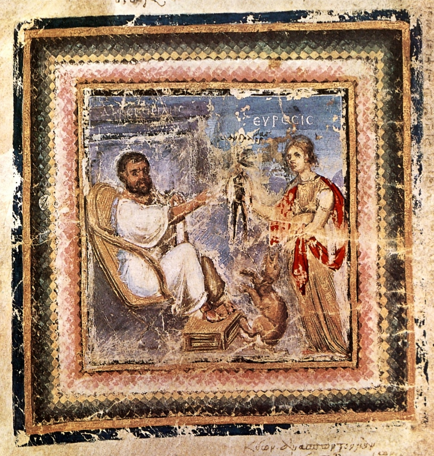 One two author portraits from the Vienna Dioscurides